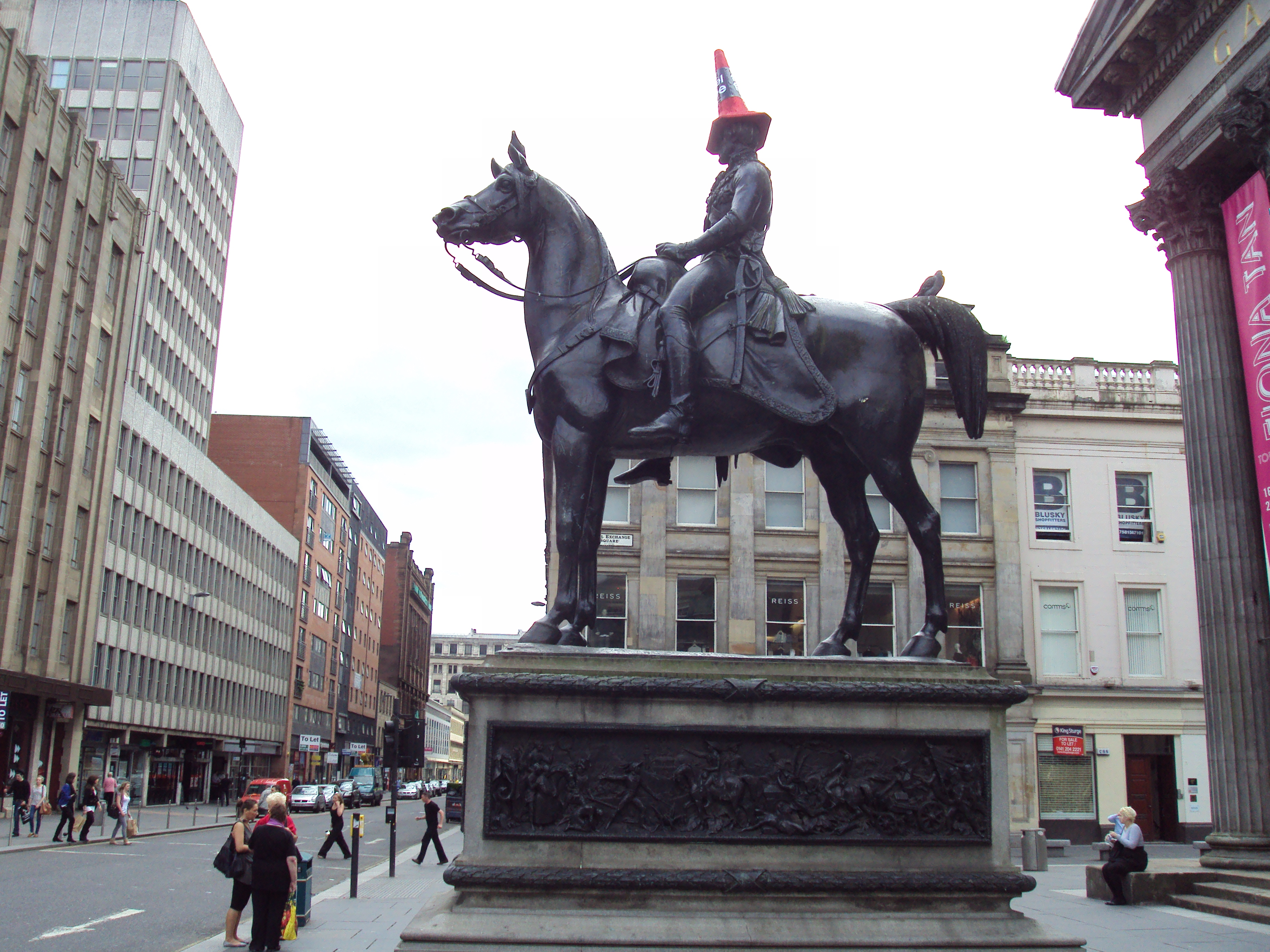 Statue of Wellington, mounted. Outside the Gallery of Modern Art, Queen Street, Glasgow, Scotland.